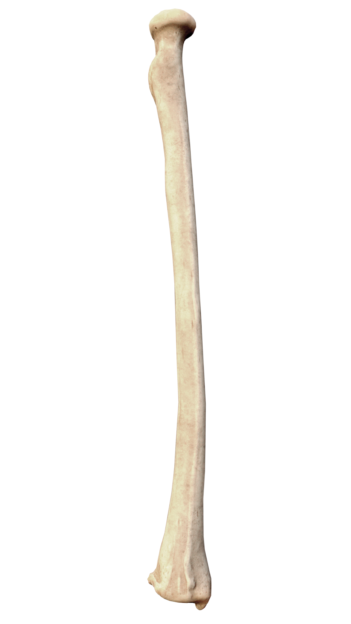 Computer Generated 3d Model showing: Full Posterior View of Right Radius